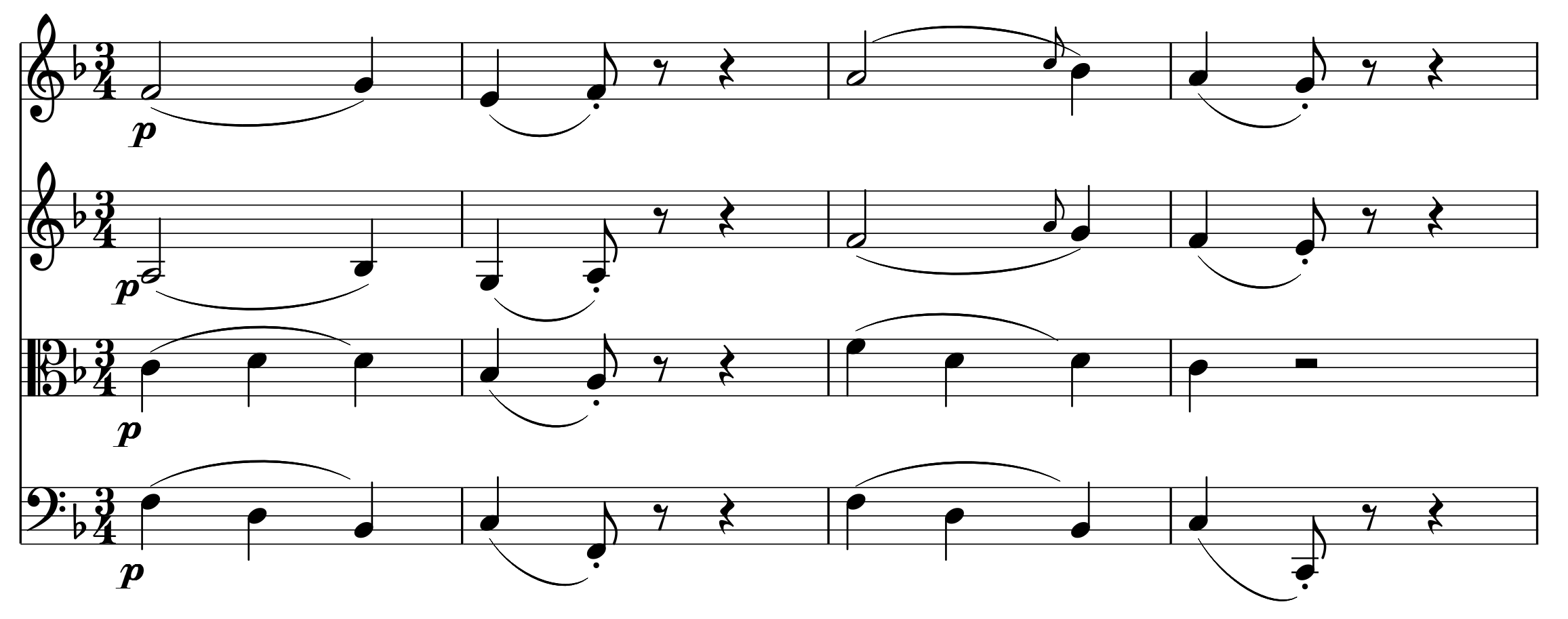 The first four measures (strings) of the second movement of Haydn's Symphony No. 98.